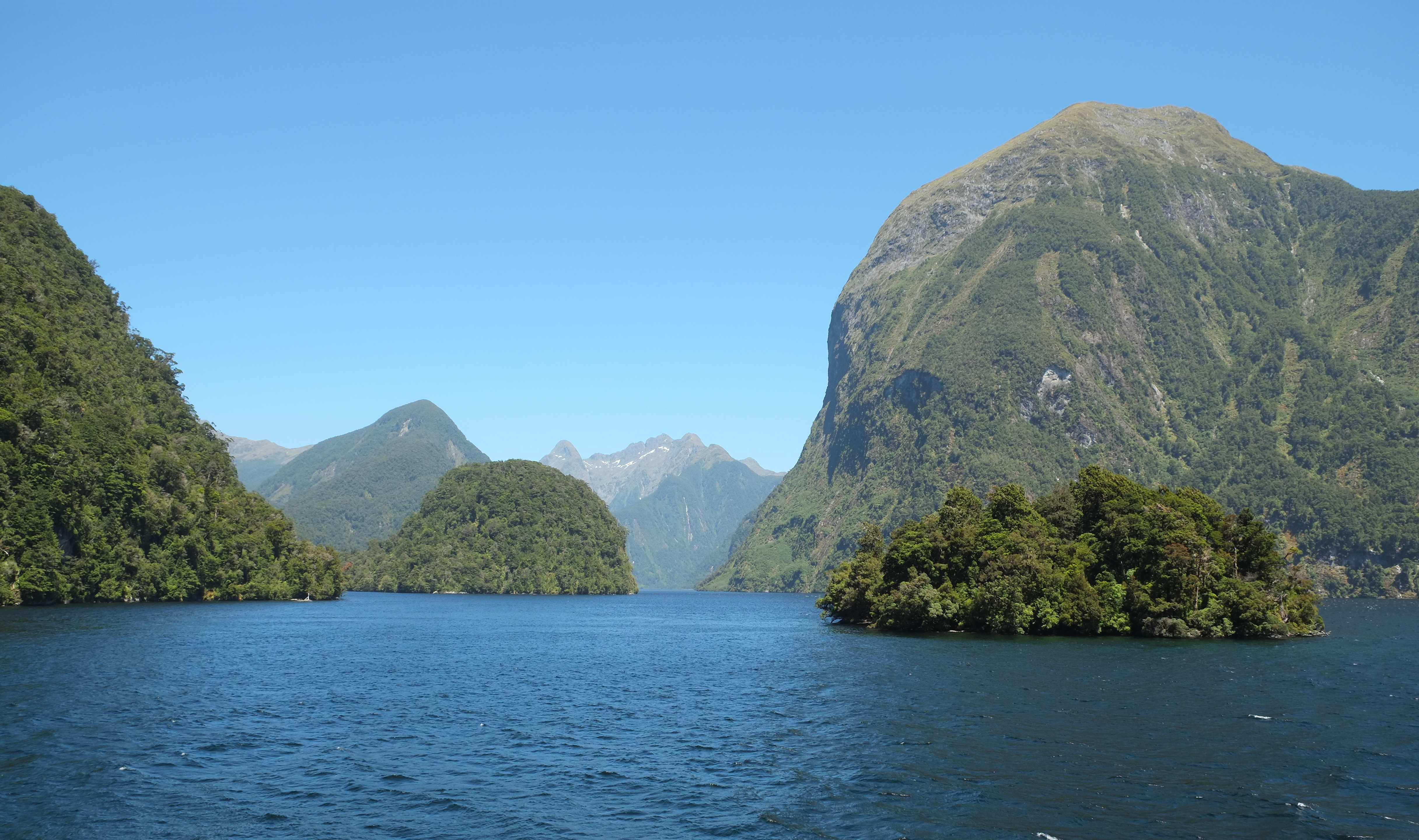 Rolla Island (on the right) in front of Commander Peak and entrance to Hall Arm of Doubtful Sound